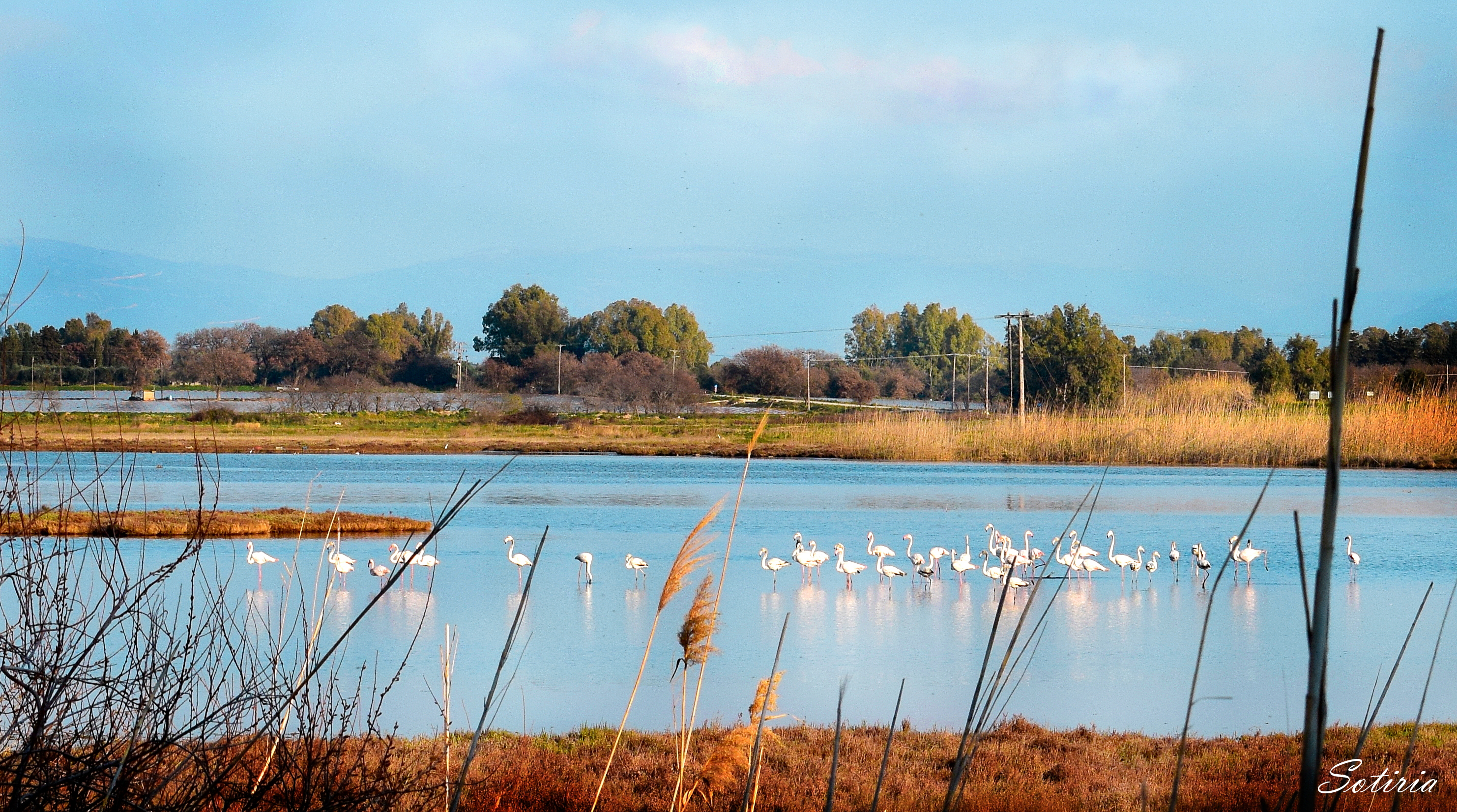 This is a photography of Natura 2000 protected area with ID GR2320001